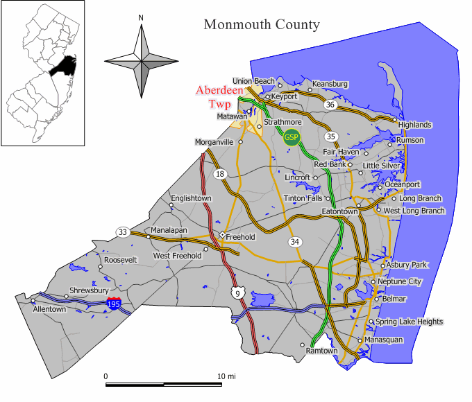 Locator map of Aberdeen Township in Monmouth County, New Jersey